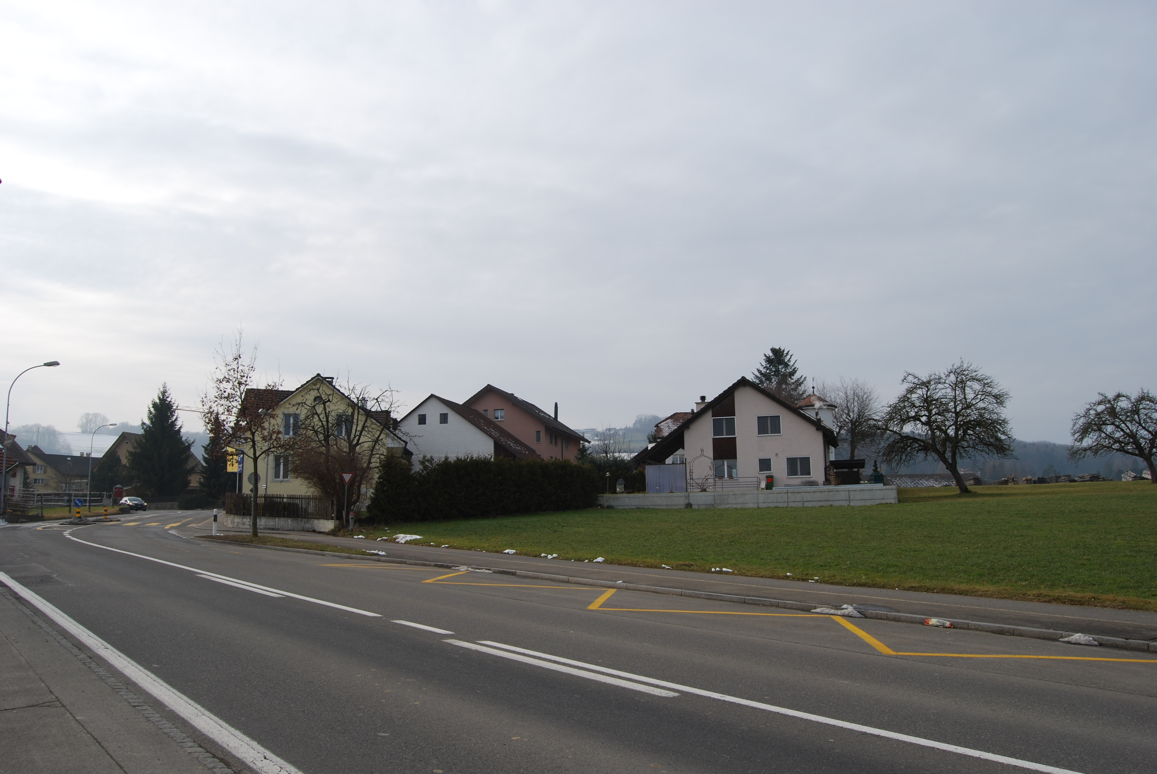 Boniswil, canton of Aargau, SwitzerlandEsperanto: Boniswil, Kantono Argovio, Svislando